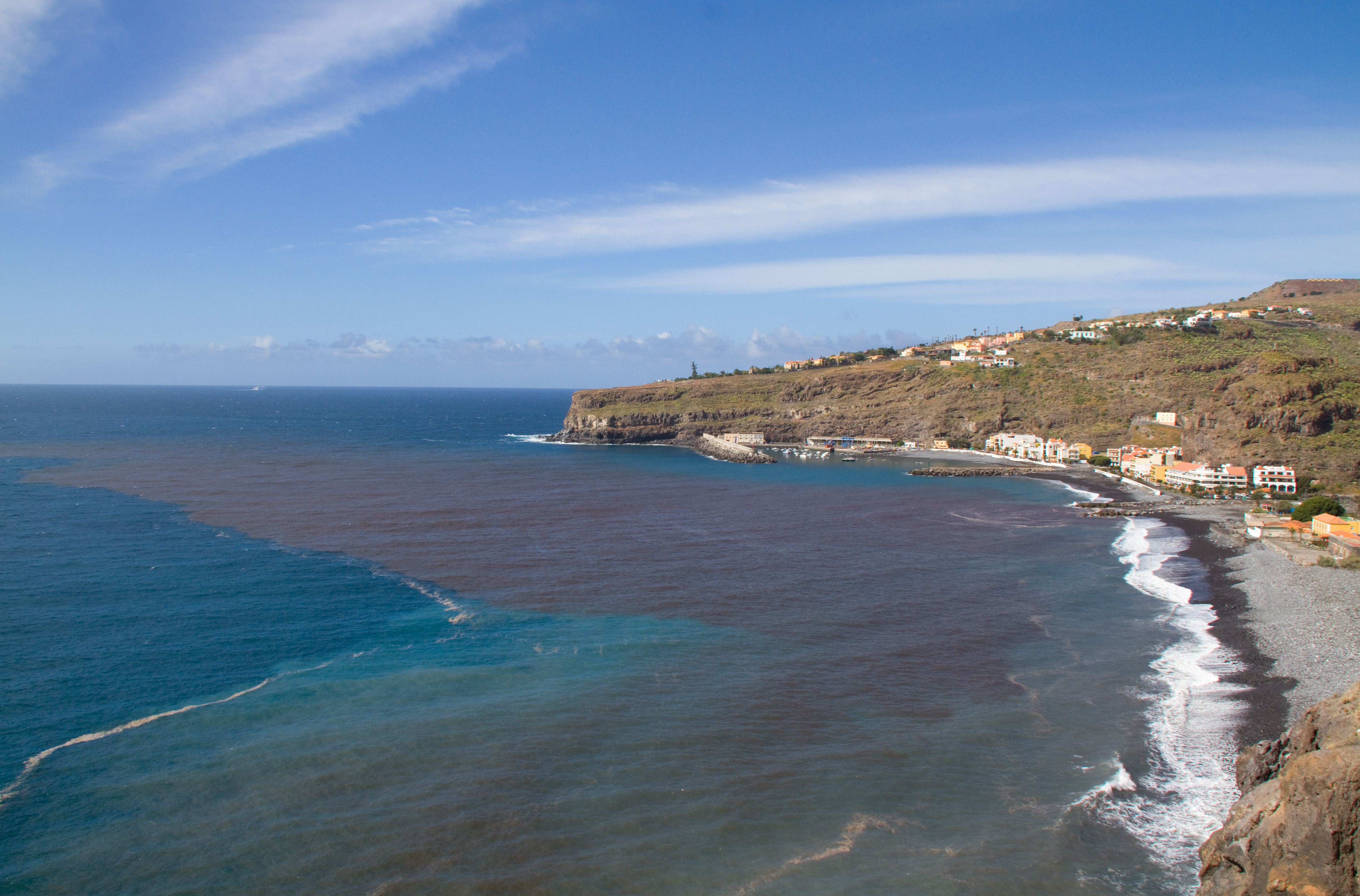 View of part of the beach of Playa de Santiago: the sea was rough last night and today the sea was a strange colour